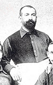 A FC Barcelona football squad.